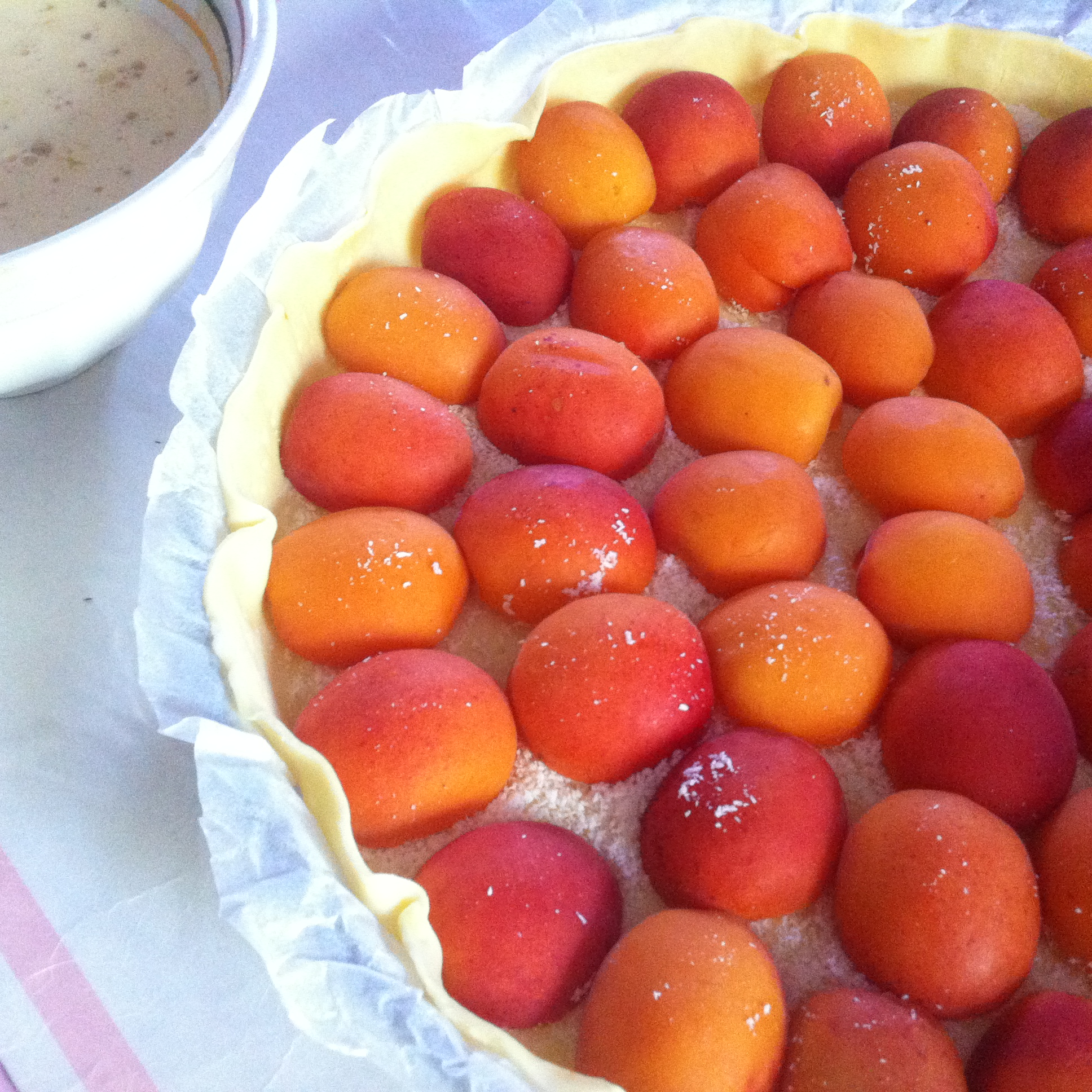 An apricot pie, still raw, before entering the oven.